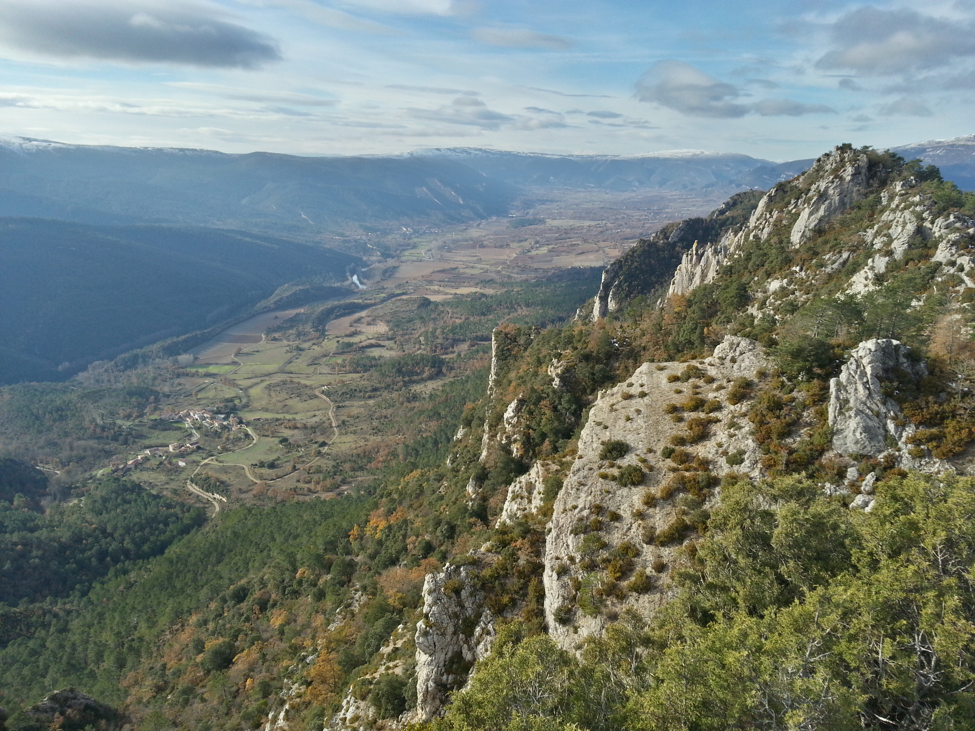 This is a photography of a Special Area of Conservation in Spain with the ID: ES4120094. Natura2000 entry, EEA entry